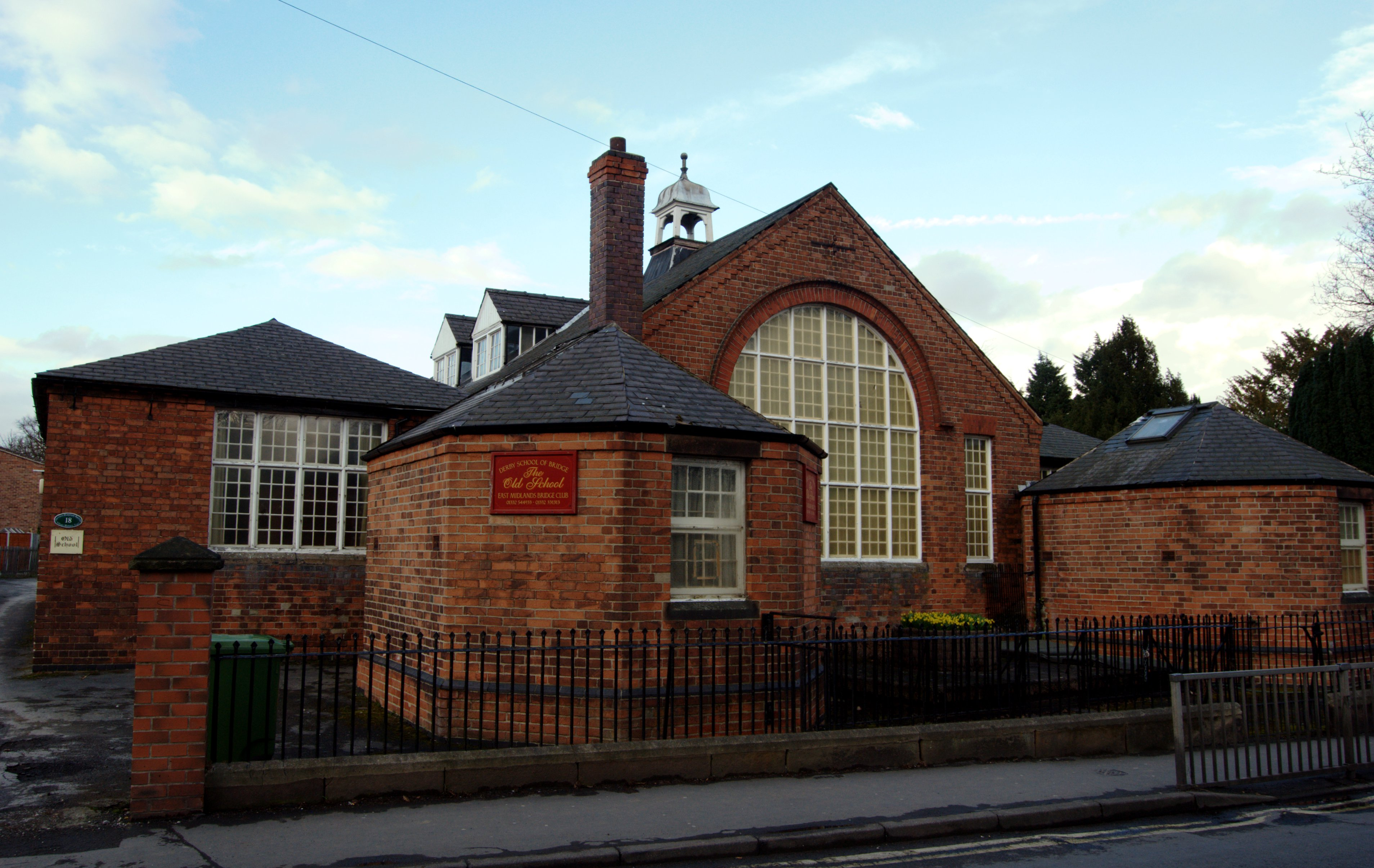 Old School House Chapel St Spondon Derby